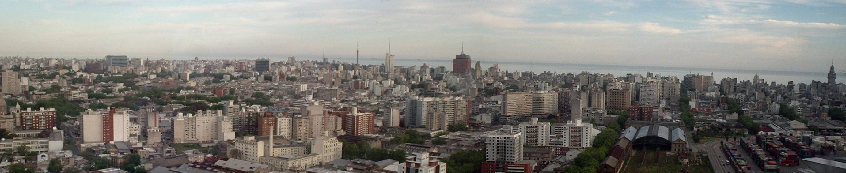 Panorama of Montevideo, Uruguay. Taken by Jordevi from the Torre de las Telecomunicaciones.